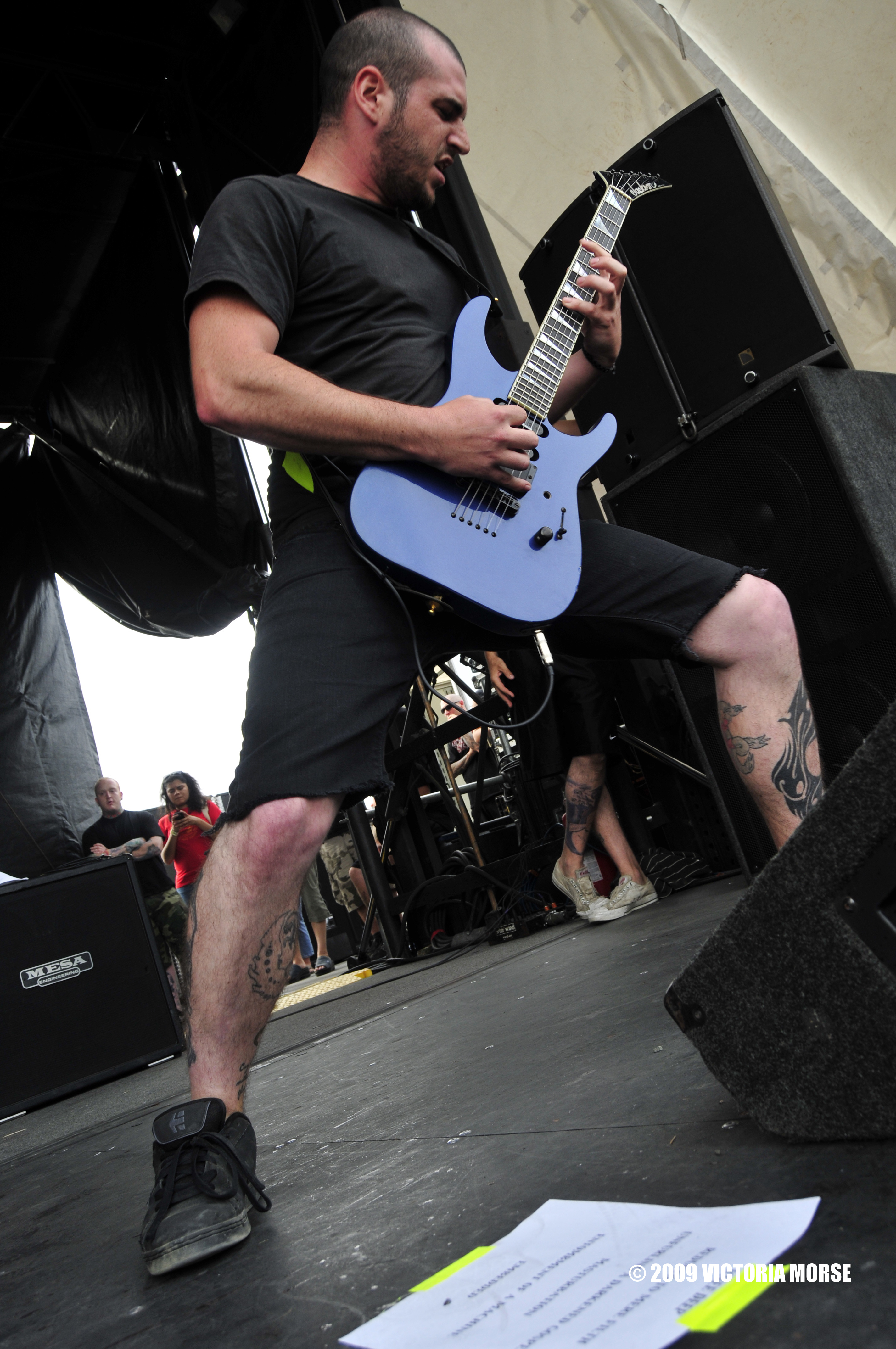 Photo taken August 8 @ Comcast Theatre.